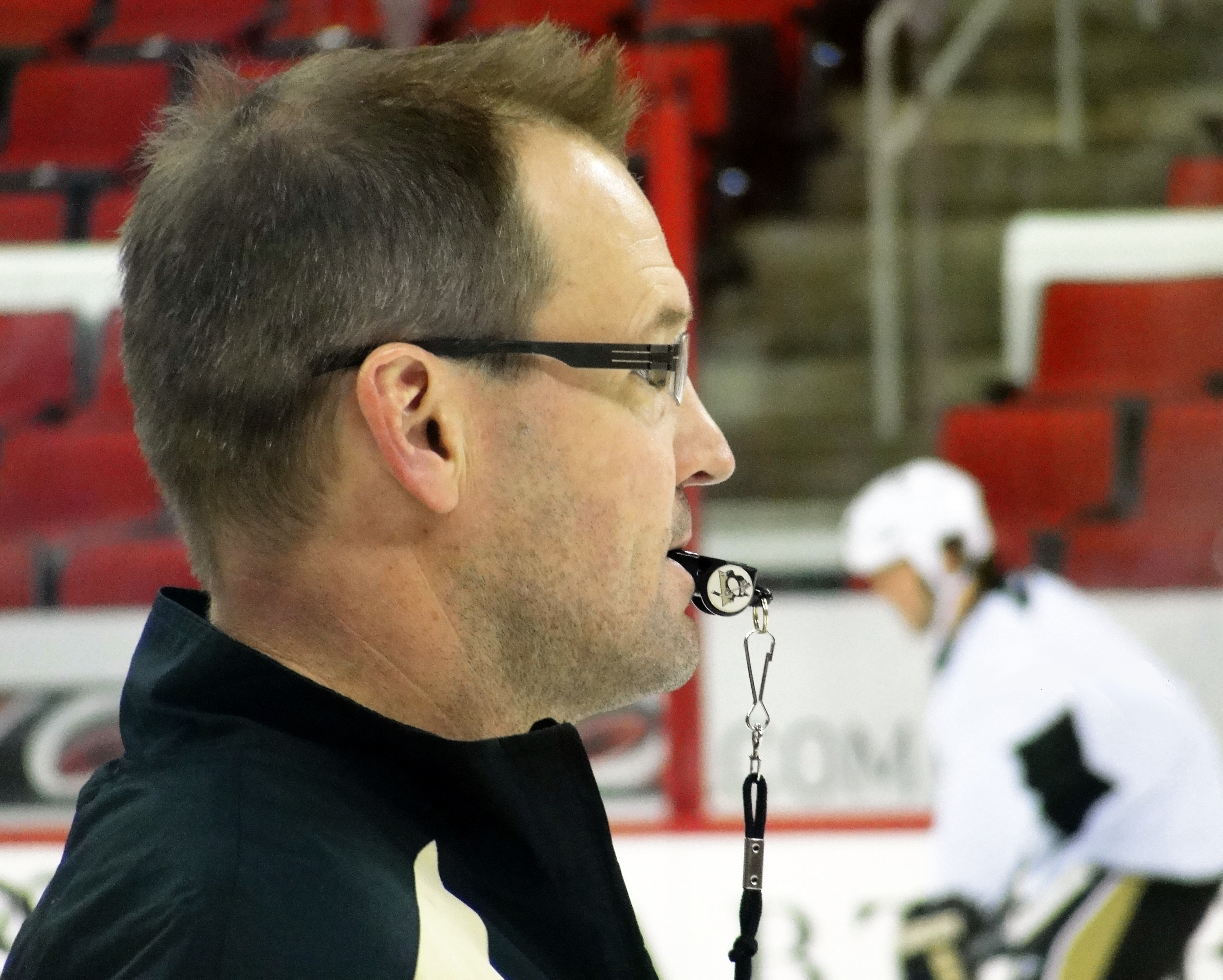 Pittsburgh Penguins Head Coach Dan Bylsma oversees the game day morning skate before a game against the Carolina Hurricanes, December 3, 2011 at RBC Center in Raleigh, NC.